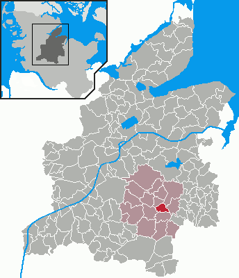 Locator maps of municipalities in Schleswig-Holstein - District Rendsburg-Eckernförde